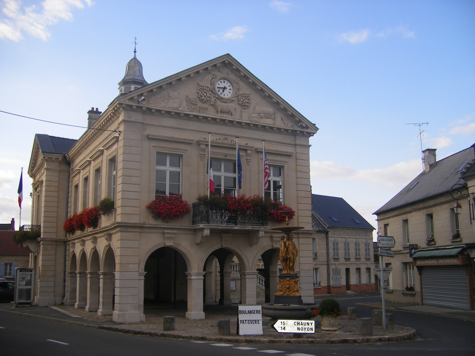 Blérancourt - Town Hall